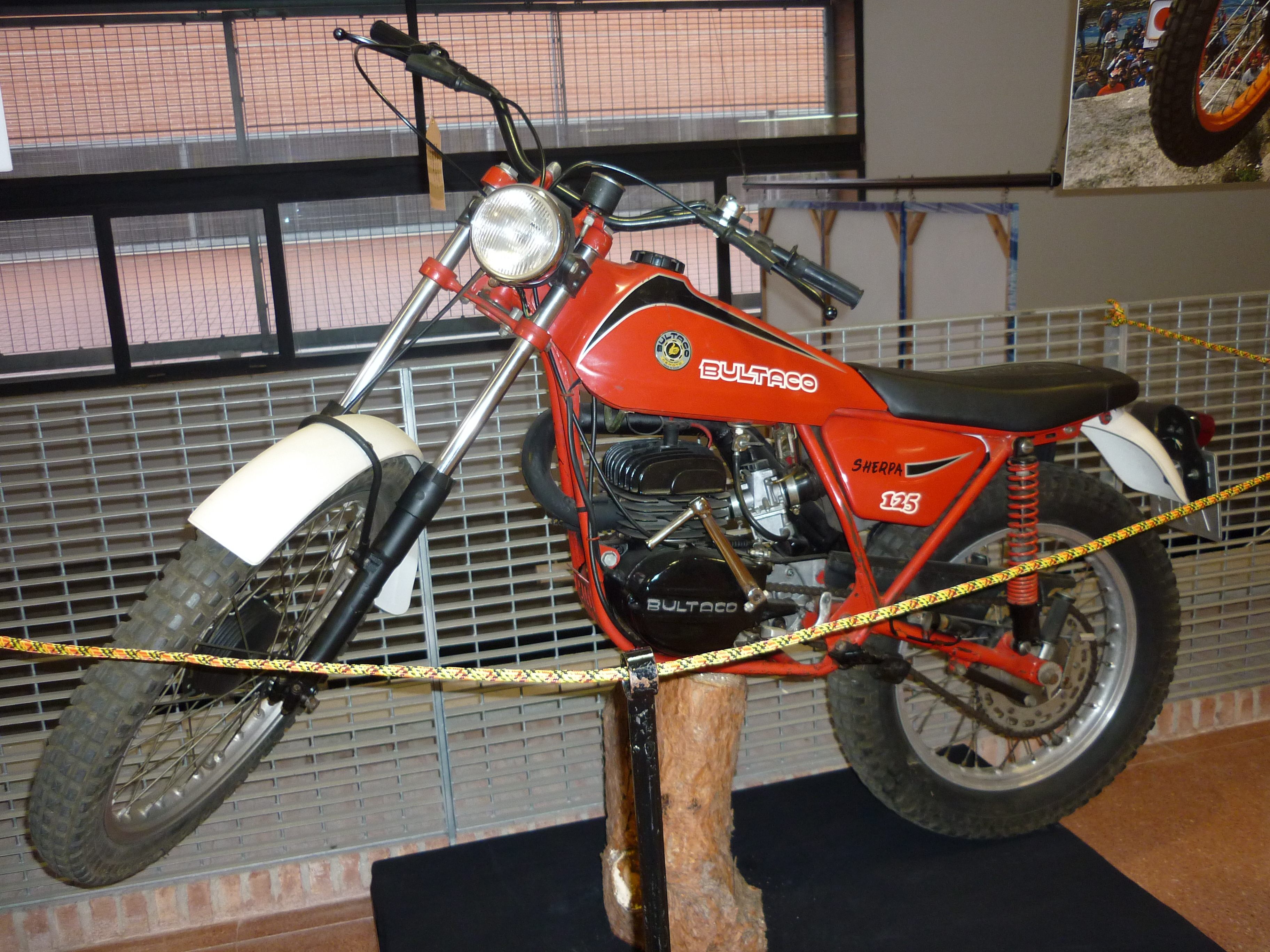 Bultaco Sherpa T 125 (1978), 2nd version with a black fringe)